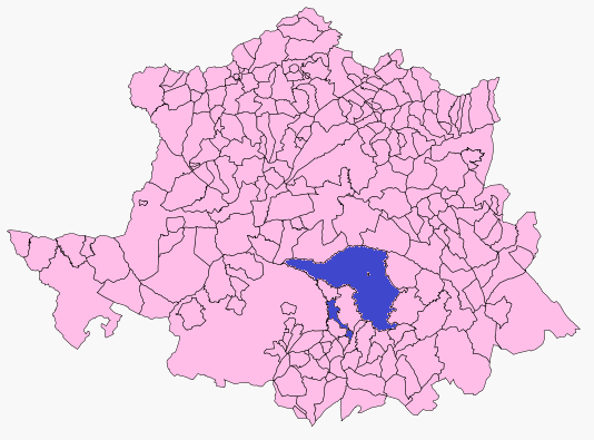 Trujillo